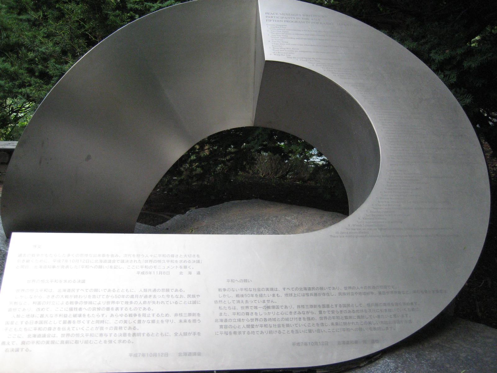 Asian_Peace_Messages_of_1996_Hokkaido_Program in front of Former Hokkaido Government Office in Sapporo